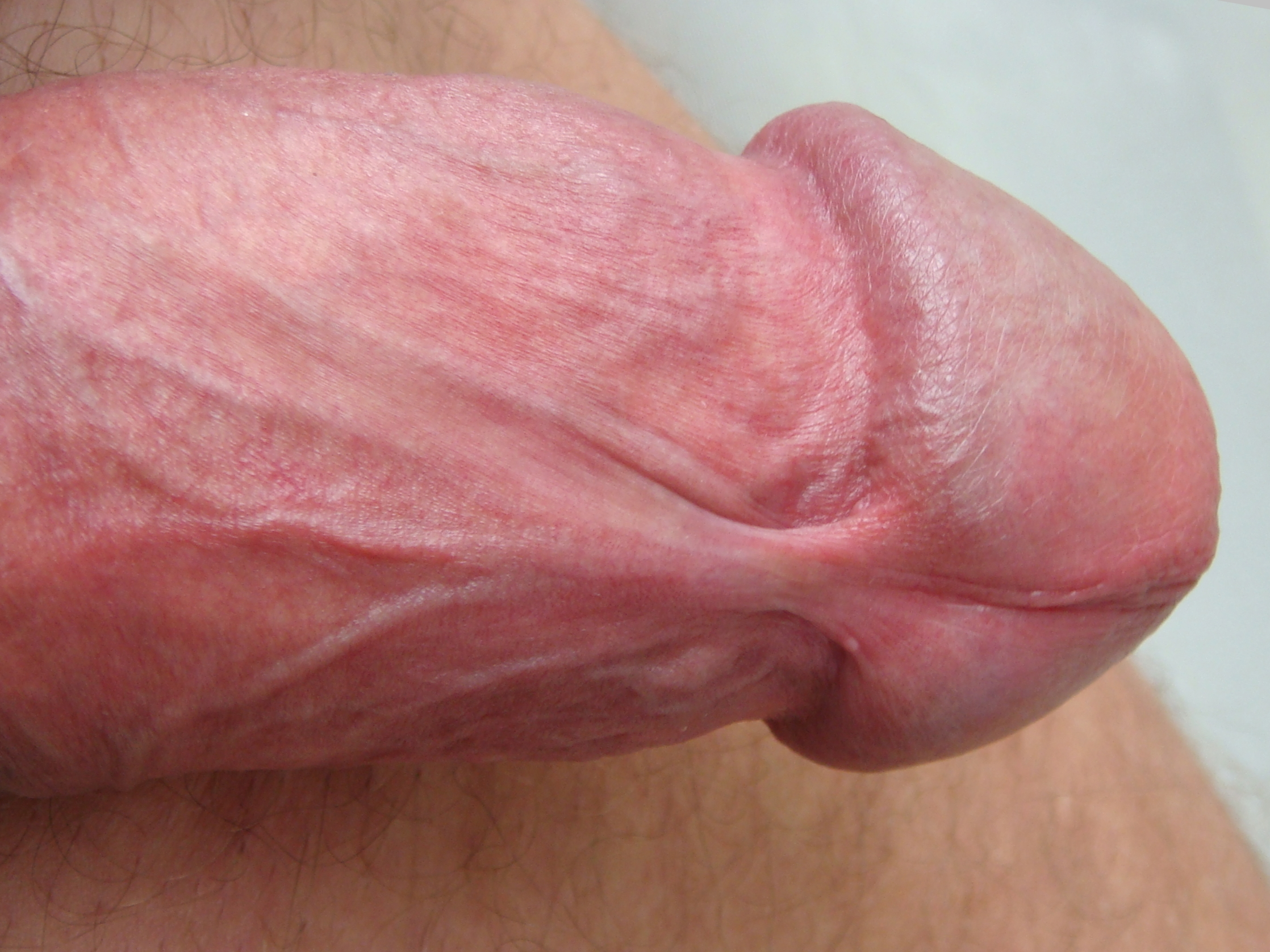 Uncircumcised penis with retracted foreskin and an intact frenulum.